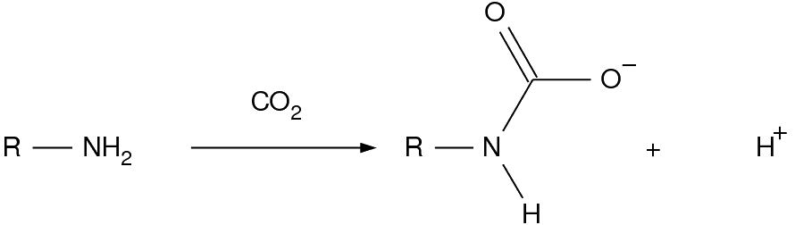 I made the figure myself, with ChemTool 1.6.9. I wanted to substitute the Image:Carbamates.gif in the Carbamate entry for a better quality picture. It was exported from ChemTool to EPS, then converted to PNG.